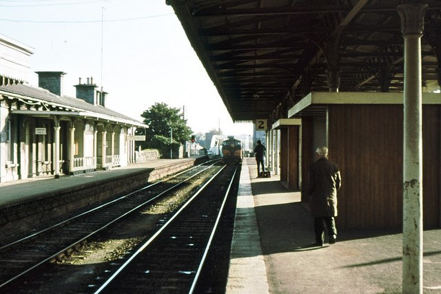 Athlone station, August 1983